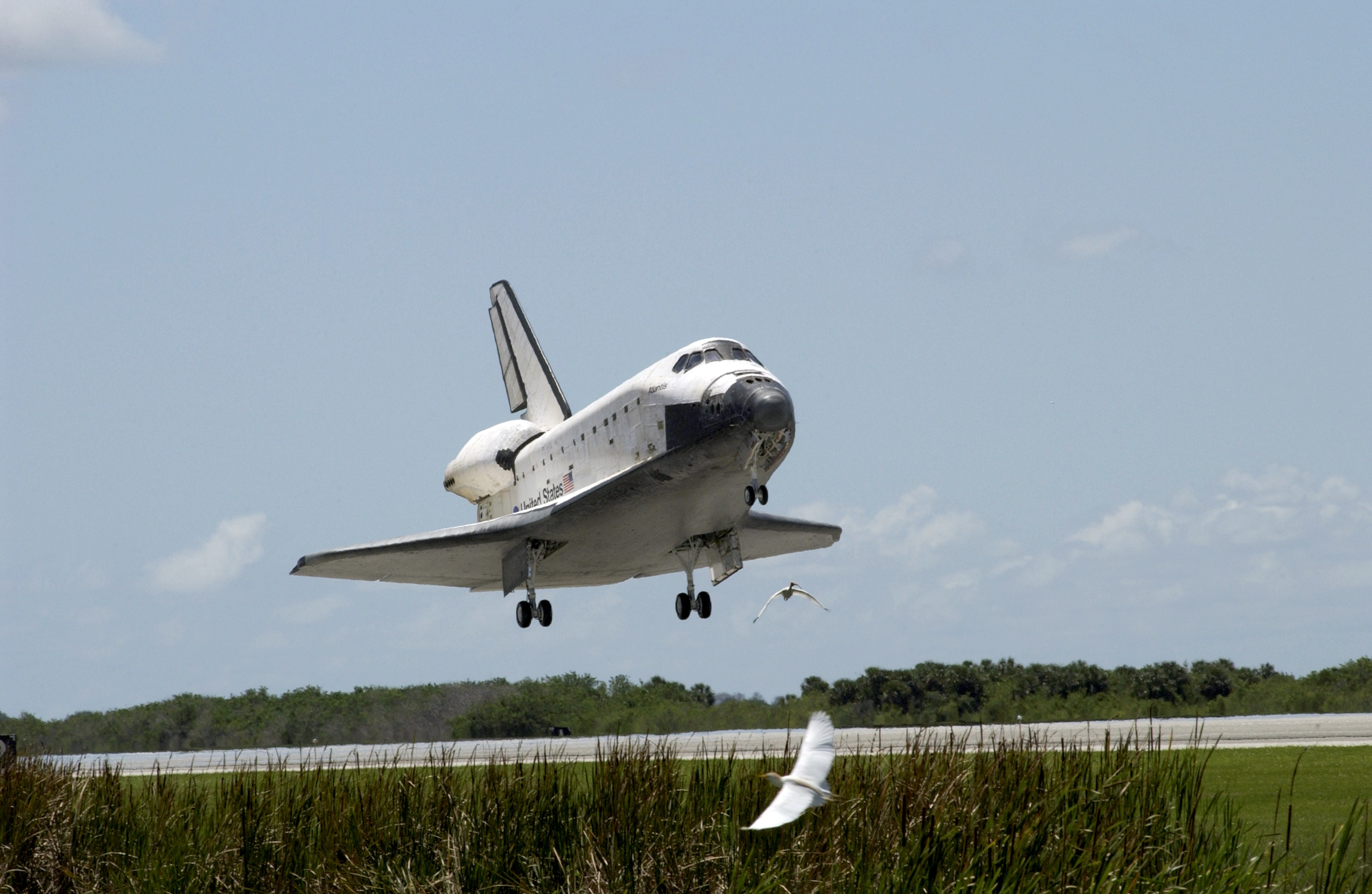 The Space Shuttle Atlantis heads for touchdown on the runway at the Kennedy Space Center landing facility to complete a nearly 11-day journey. Astronaut Michael J. Bloomfield, mission commander, eased Atlantis to a textbook landing on runway 3-3 at the Florida spaceport at 12:27 p.m. (EDT), April 19, 2002, under clear skies and light winds. The landing completed a 4.5-million-mile mission that saw successful delivery and installation of the centerpiece of the International Space Station's main truss and the inaugural run of the first space railcar, the Mobile Transporter.